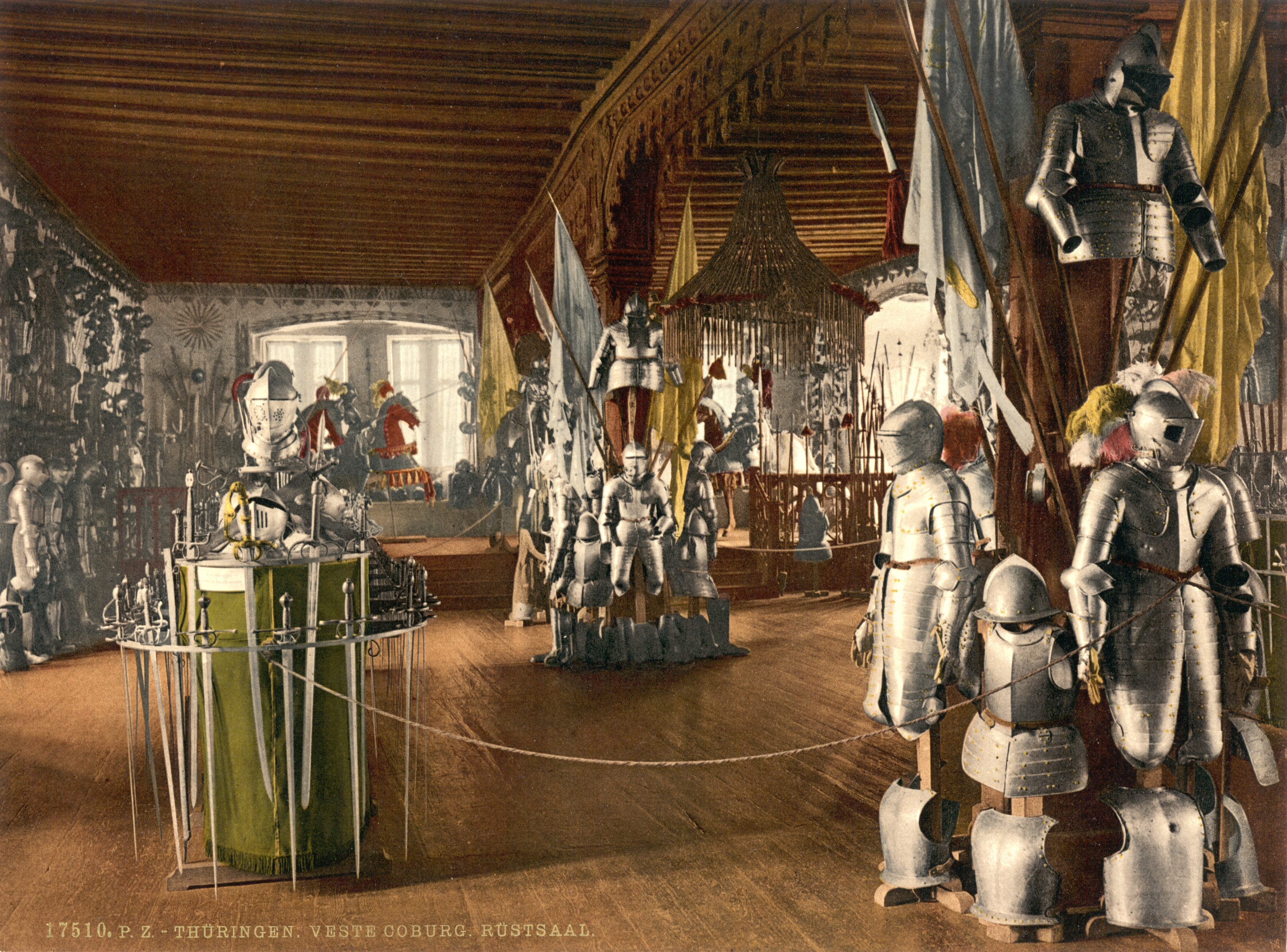 The Veste Coburg, Ruestsaal